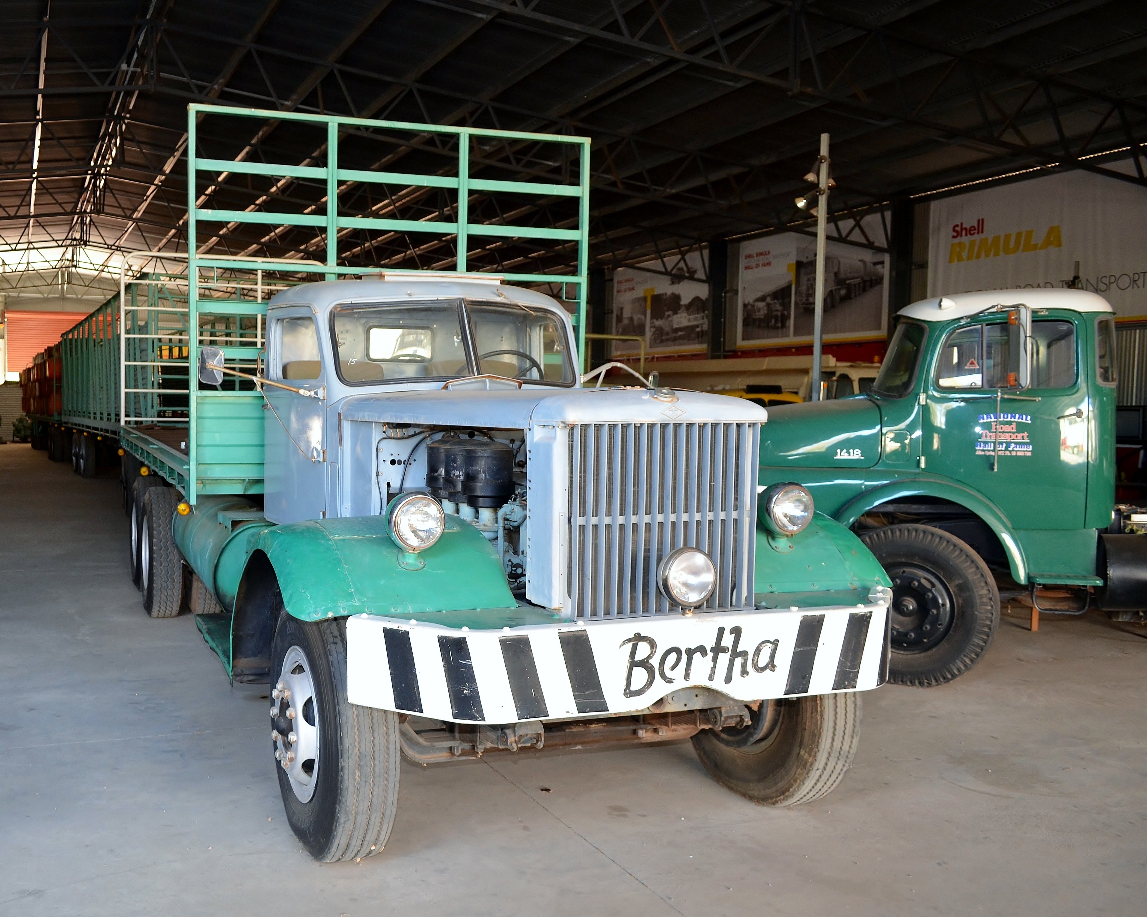 Kurt Johannsen's Diamond T 980 tank transporter converted into a civilian heavy haulage vehicle, on display at the National Road Transport Hall of Fame, Alice Springs, NT, Australia. Named "Bertha", it was, when combined with a trailer into a 50 metre long combination, the first significant road train in central Australia. In 1948, the road train was used to transport the first 74 head of cattle to be trucked from the Barkly Tableland to Alice Springs.